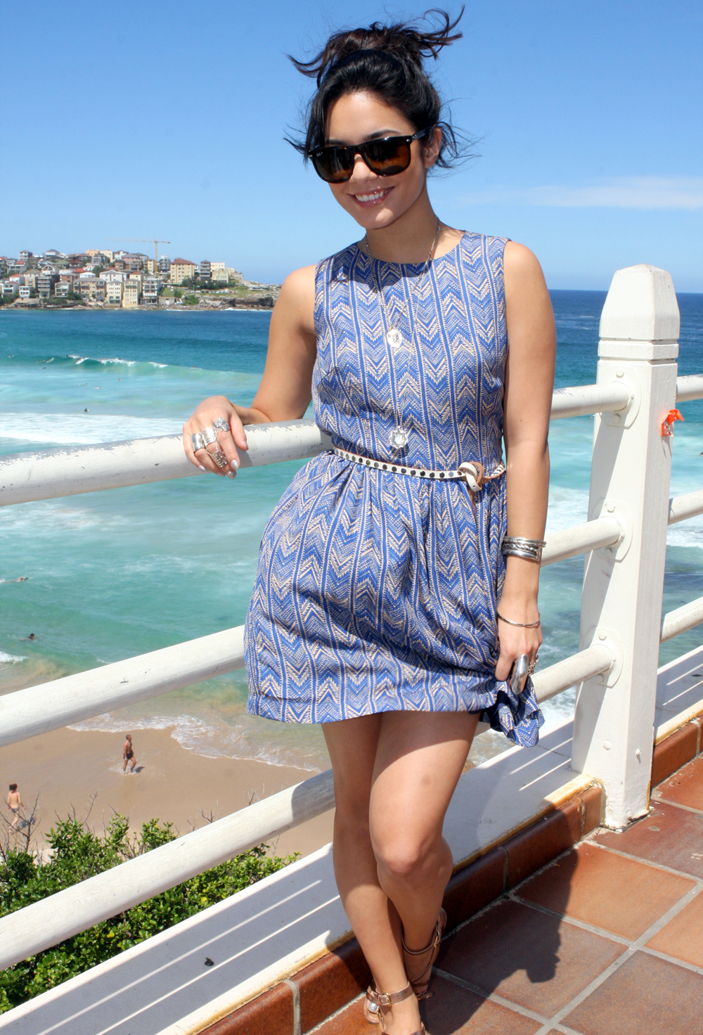 Vanessa Hudgens Adventure to Bondi Beach 2012.